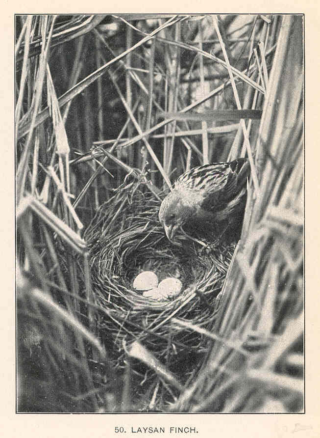 Laysan Finch Subject: Finches, Birds--Nests, Finches--Nests Tag: Birds